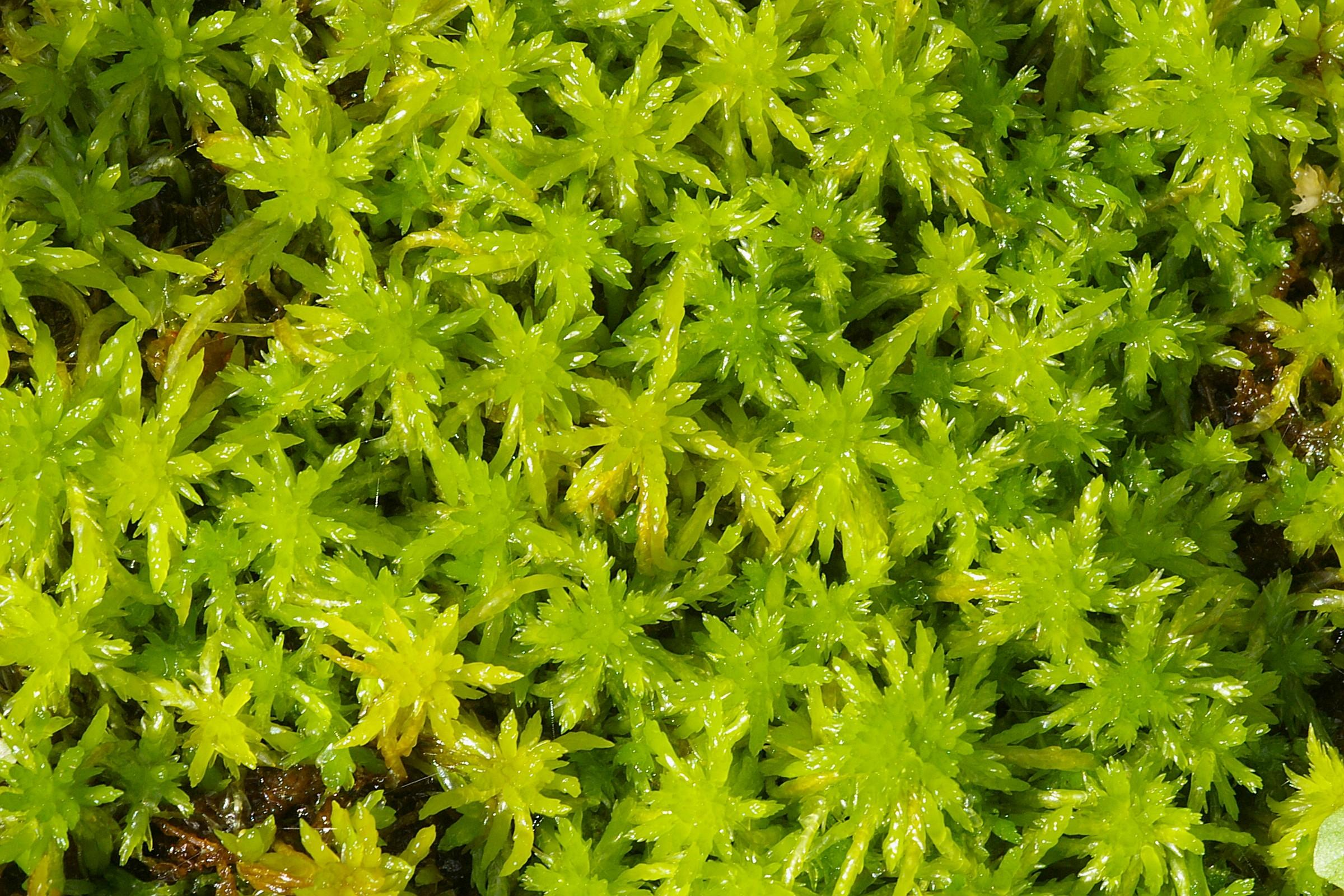 Probably Sphagnum fallax.